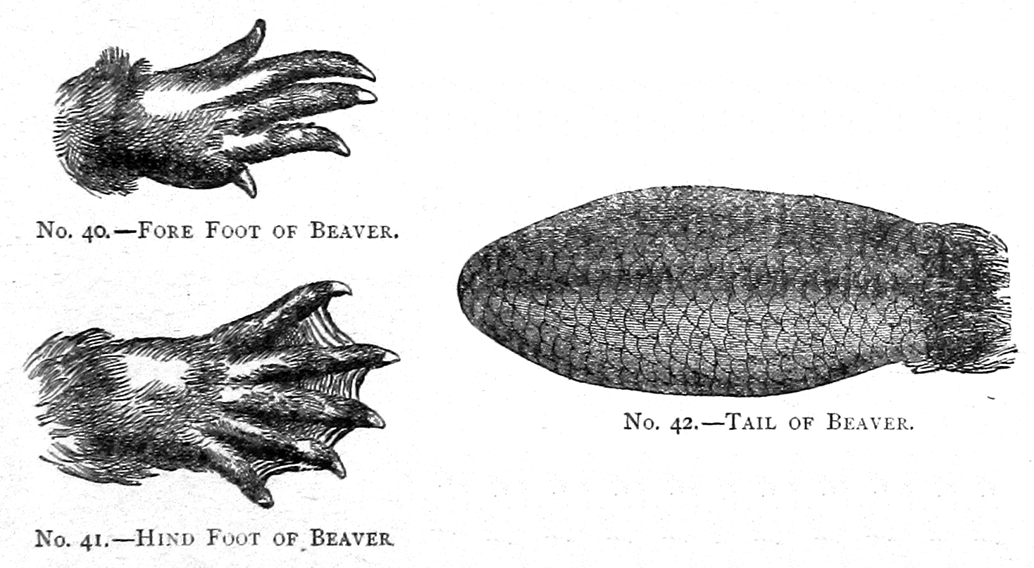 Illustration from "Picture Natural History" - No 40 41 42 - Beaver feet and tail